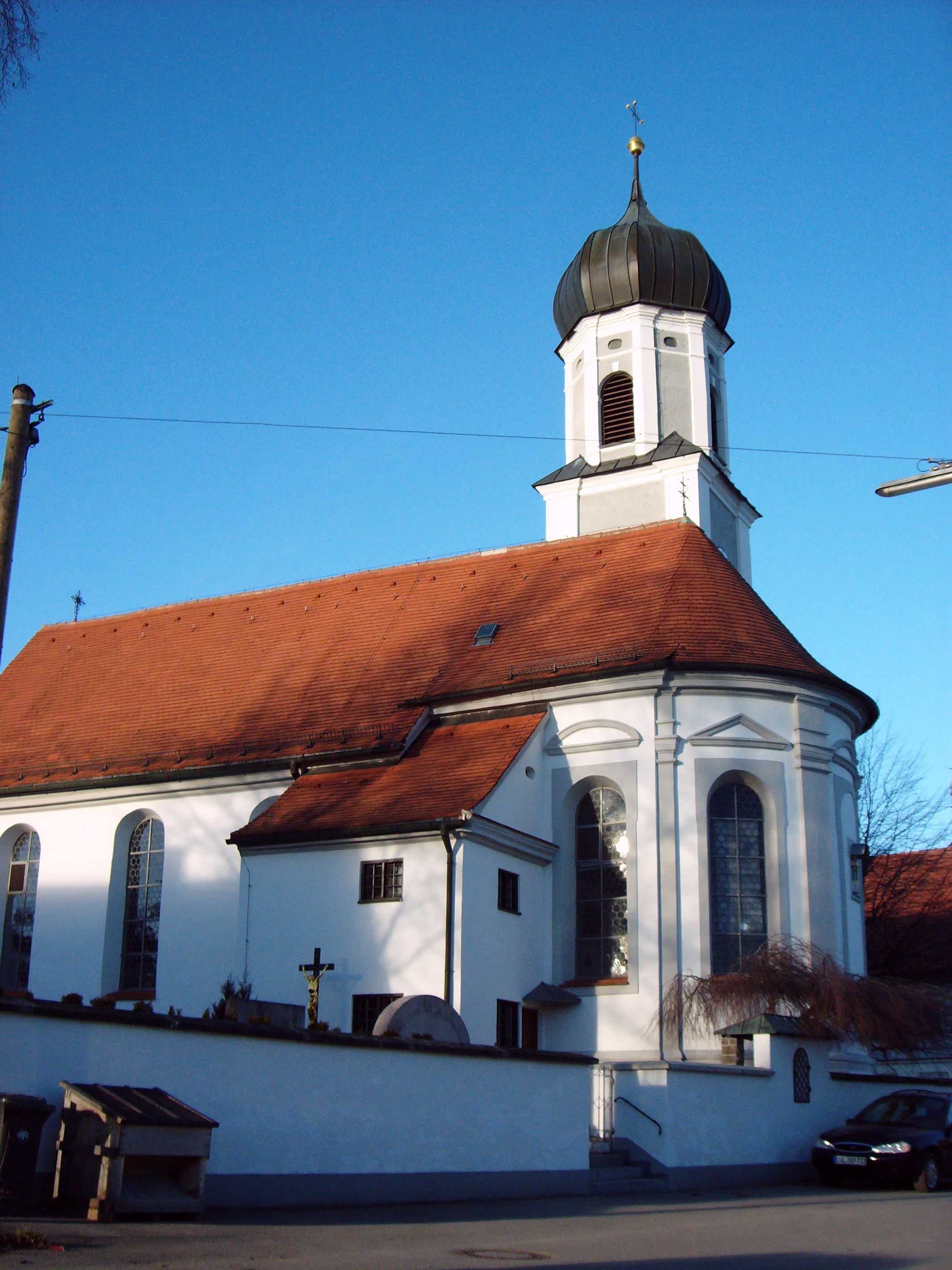 Church St. Nikolaus in Lengenfeld, City of Oberostendorf, Bavaria